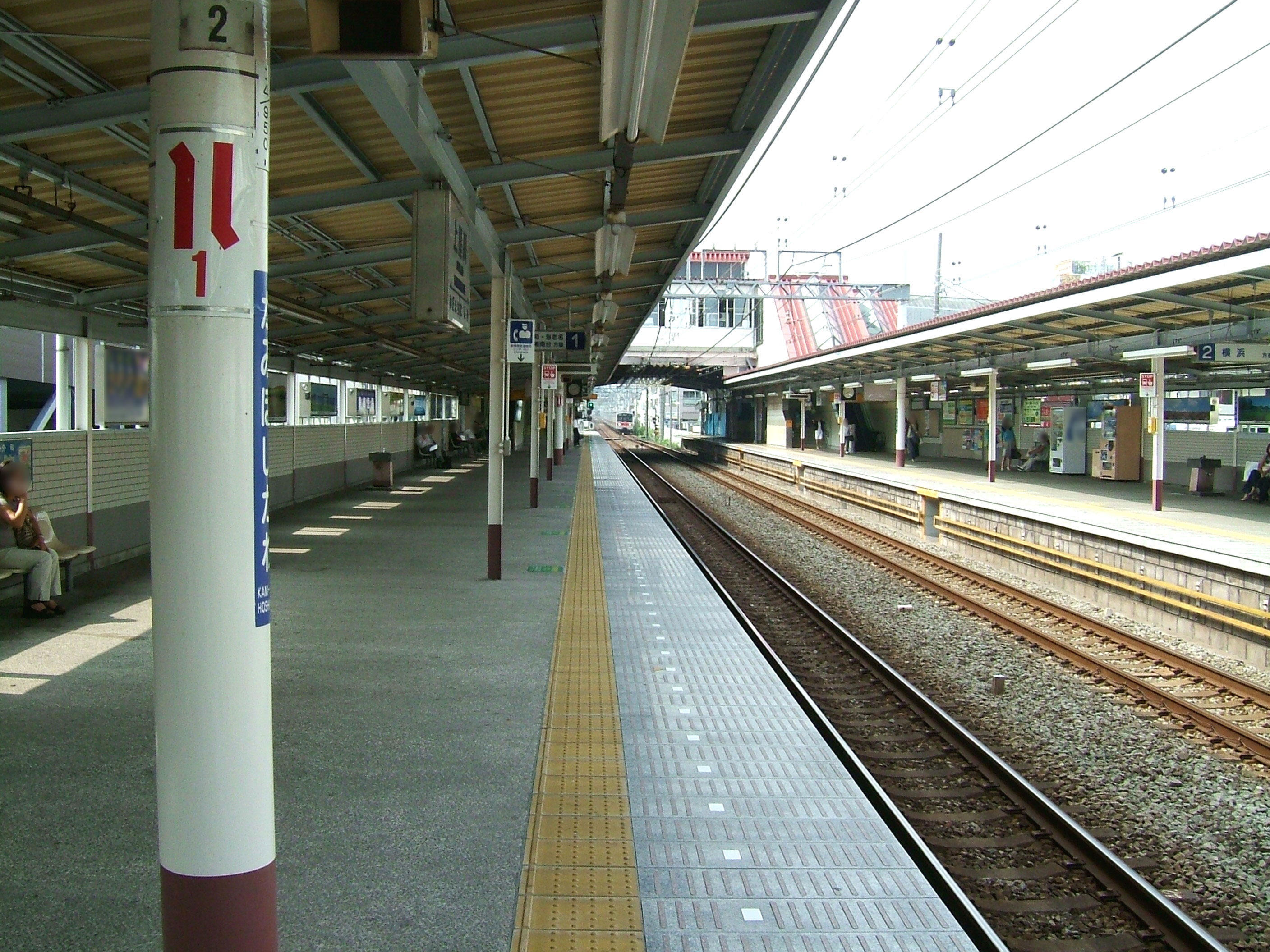 The platforms at Kami-hoshikawa Station on the Sagami Railway Main Line in Hodogaya-ku, Yokohama, Japan